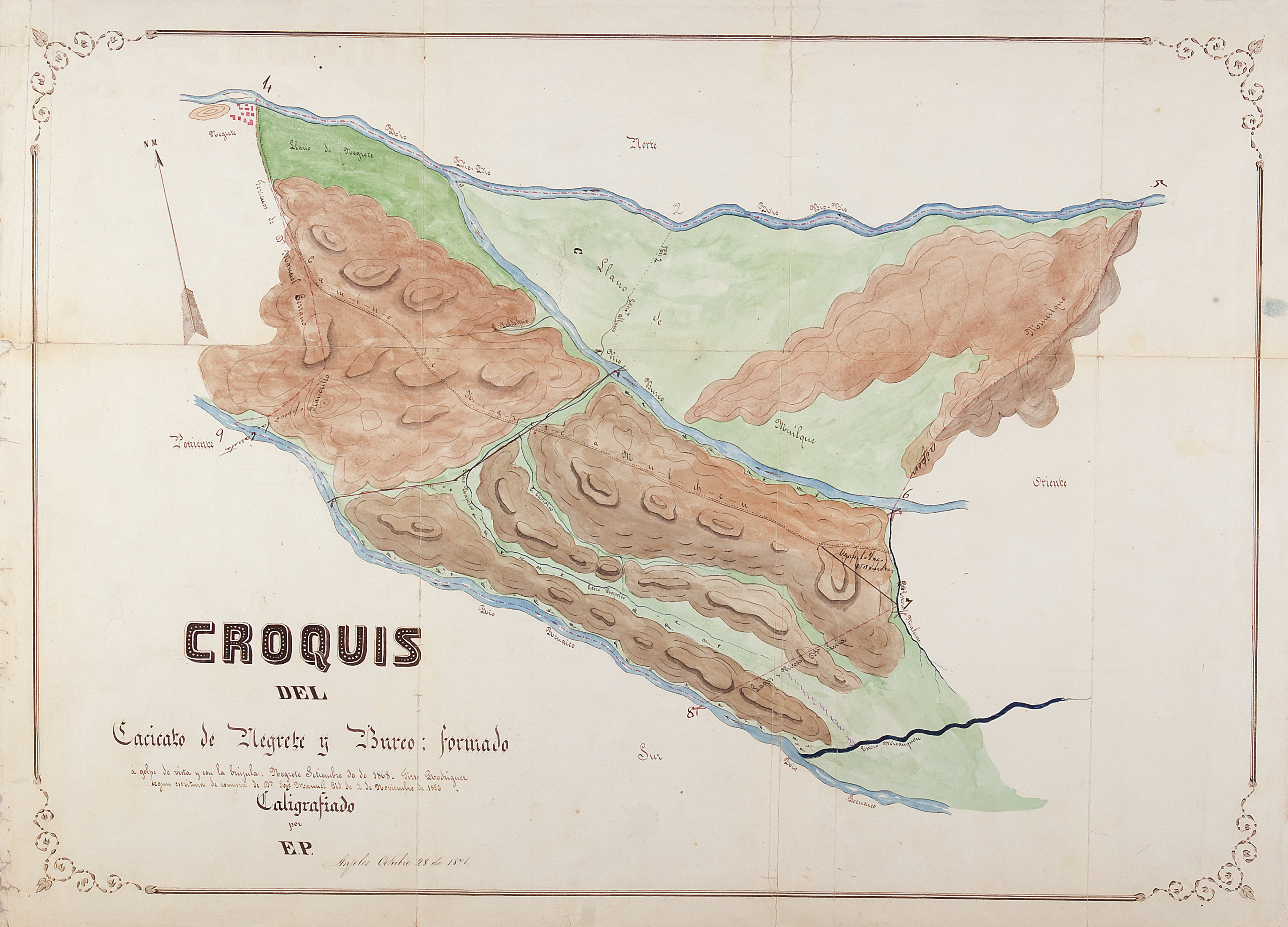 Sketch of the chiefdom of Negrete and Bureo, 1871, Tirso Rodriguez found in the Map Library of the National Archives of Chile